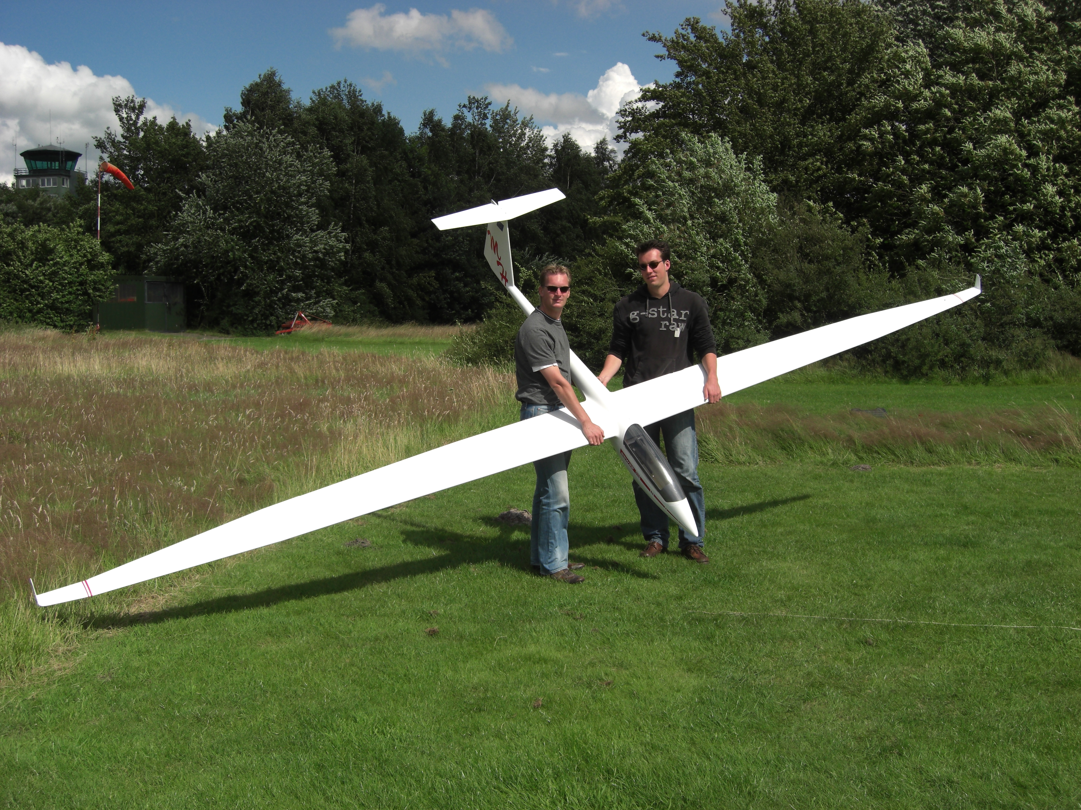 A radio controlled modell of a ASW-22 glider